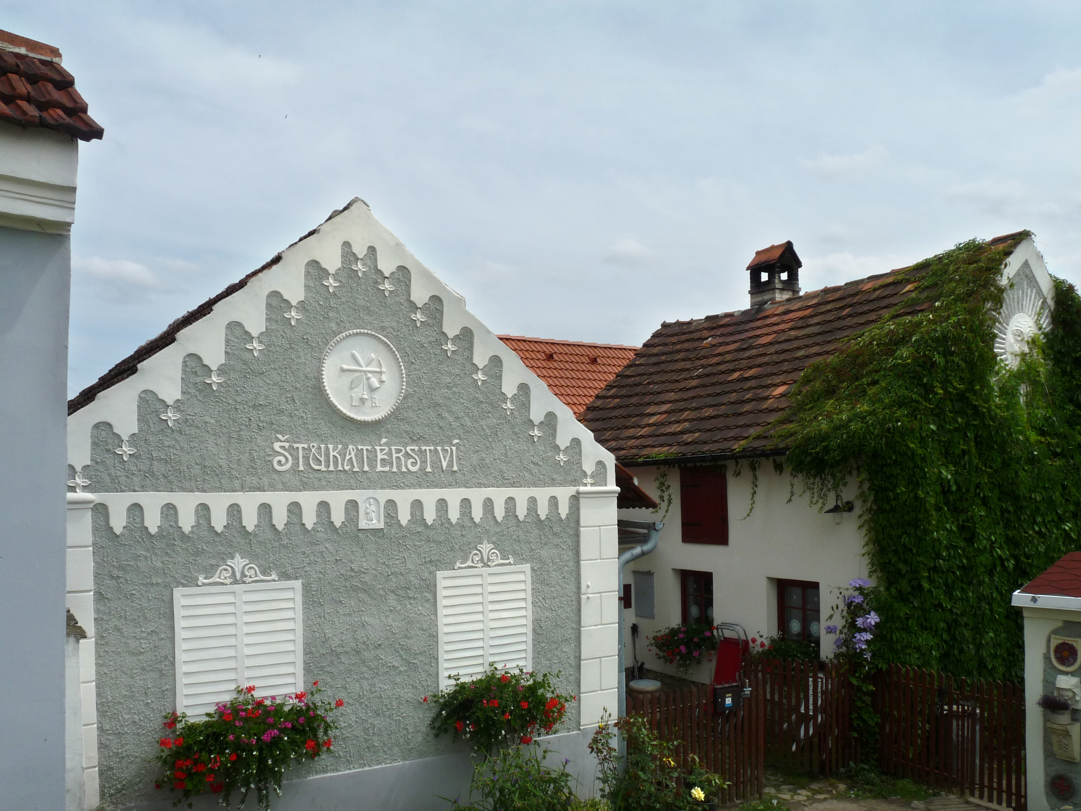 House No 24 in the village of Nedabyle, České Budějovice District, Czech Republic.